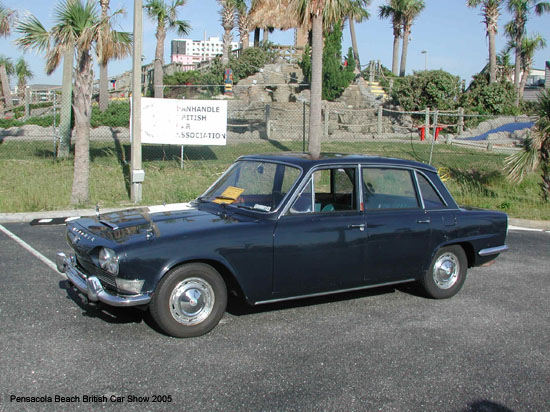 My 1966 Triumph 2000 Mk1 sedan during a British Car show on Pensacola Beach, Florida, USA. The show was sponored by the Panhandle British Car Association ( of Pensacola, Florida, USA.